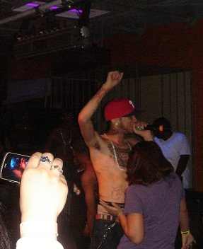 Montae "M-Bone" Talbert, of Cali Swag District, dances with a female fan during a concert at Club Millennium in Anchorage, Alaska the morning of October 24, 2010